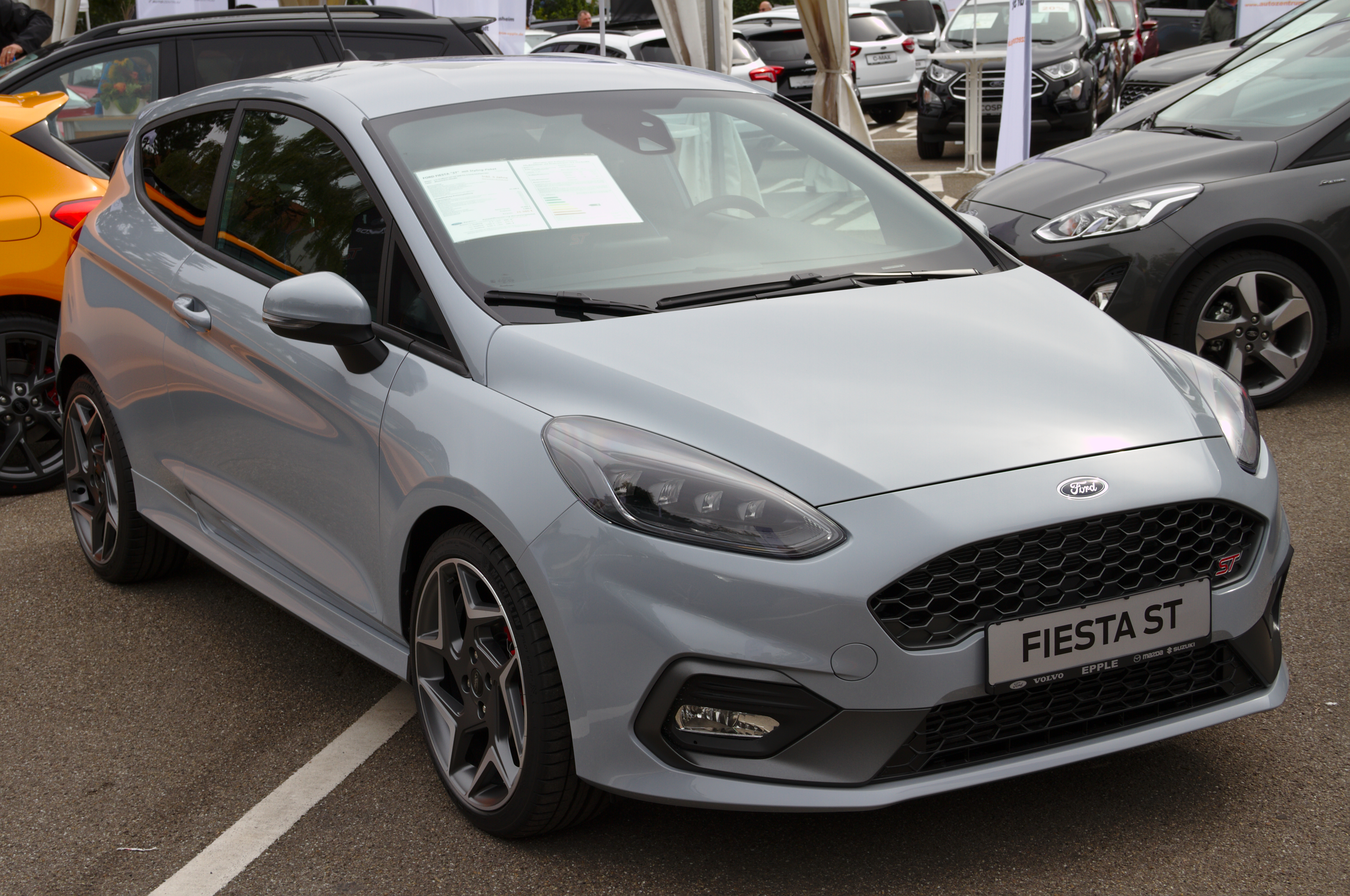 Ford_Fiesta_ST_MK7 at Leonberger Autoschau 2019